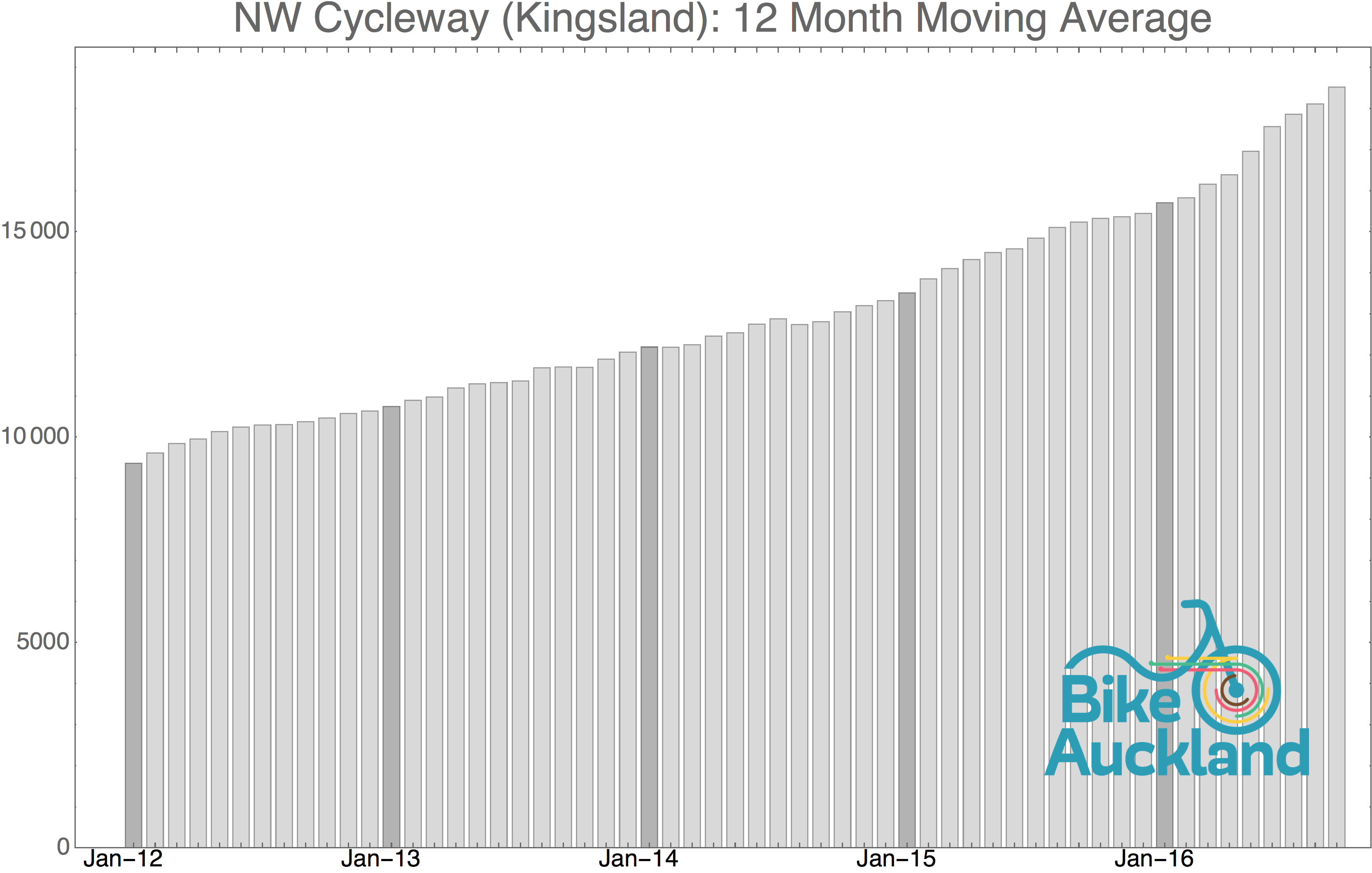 Bike Auckland representation of Auckland Transport automatic cycle counter data, represented as a 12 month rolling average. Counted at the Kingsland suburb counter.